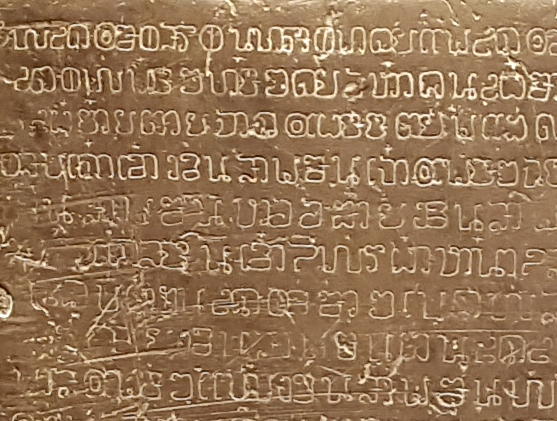 Place: Siwamok Phiman Hall, Bangkok National Museum, Bangkok, Thailand. Item: Inscription 1 (จารึกหลักที่ ๑) or Ram Khamhaeng Inscription (จารึกพ่อขุนรามคำแหง), allegedly created in 1835 BE (1292/93 CE).